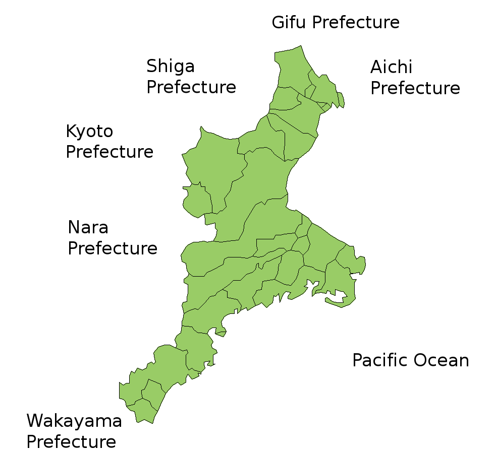 Map of Mie Prefecture, Japan. Thanks to Aoki Shigenobu and [1]. Colors from Image:TokyoMapCurrent.png by User:Fg2.